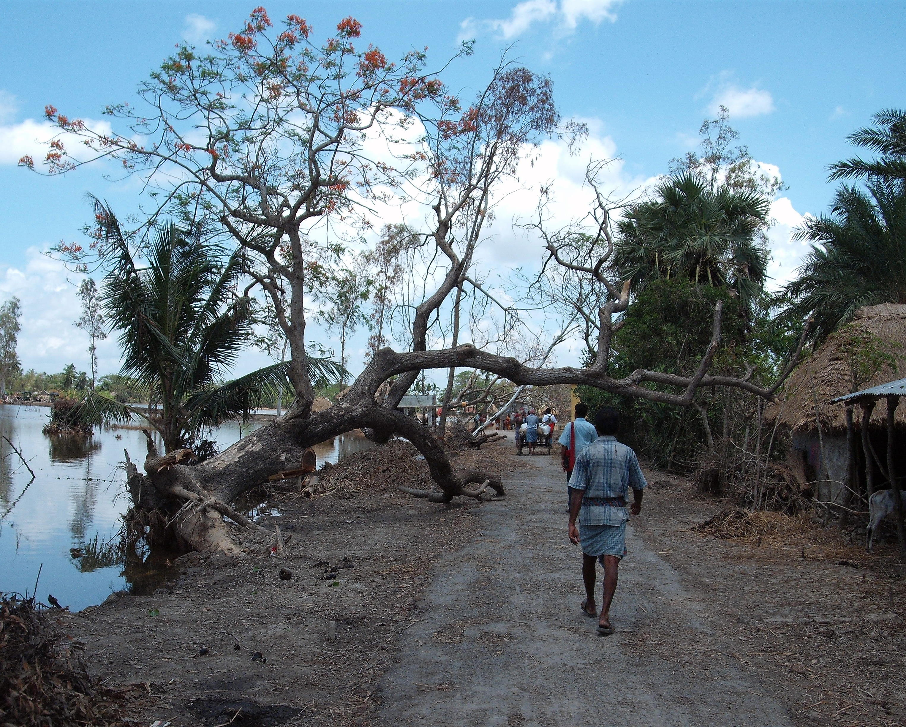 Flowers blossom beside a fallen tree, in the middle of Aila devastated village.